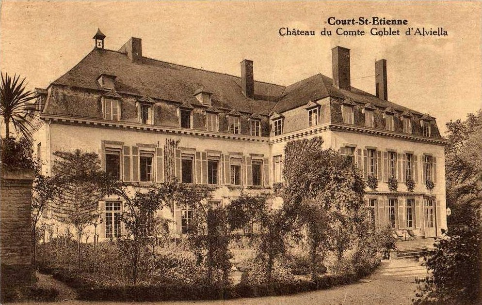 Castle in Court Saint Etienne, Brabant, Belgium. Goblet family Estate. (taken approx 1920)